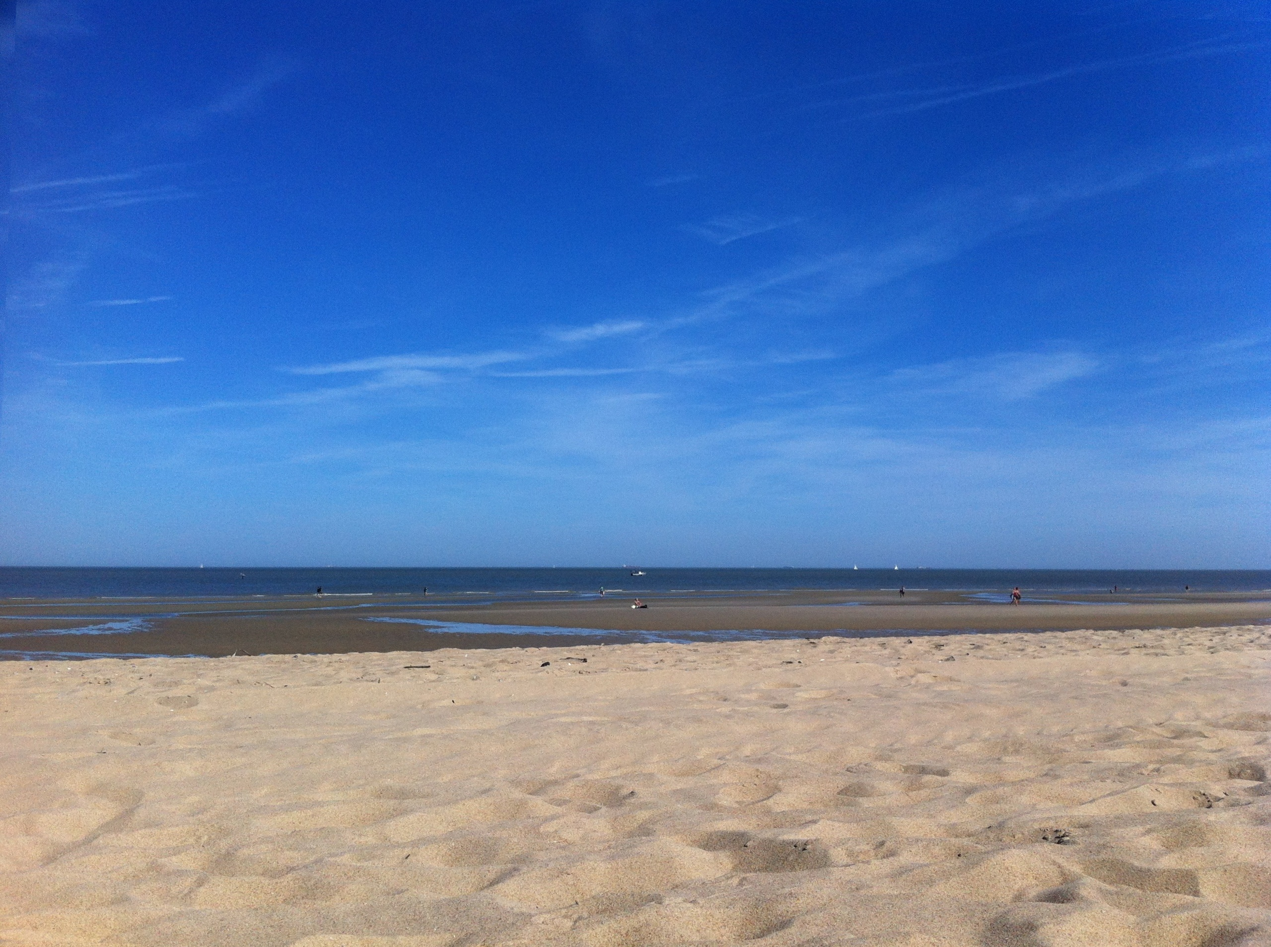 Belgian coastline in Vosseslag, De Haan.